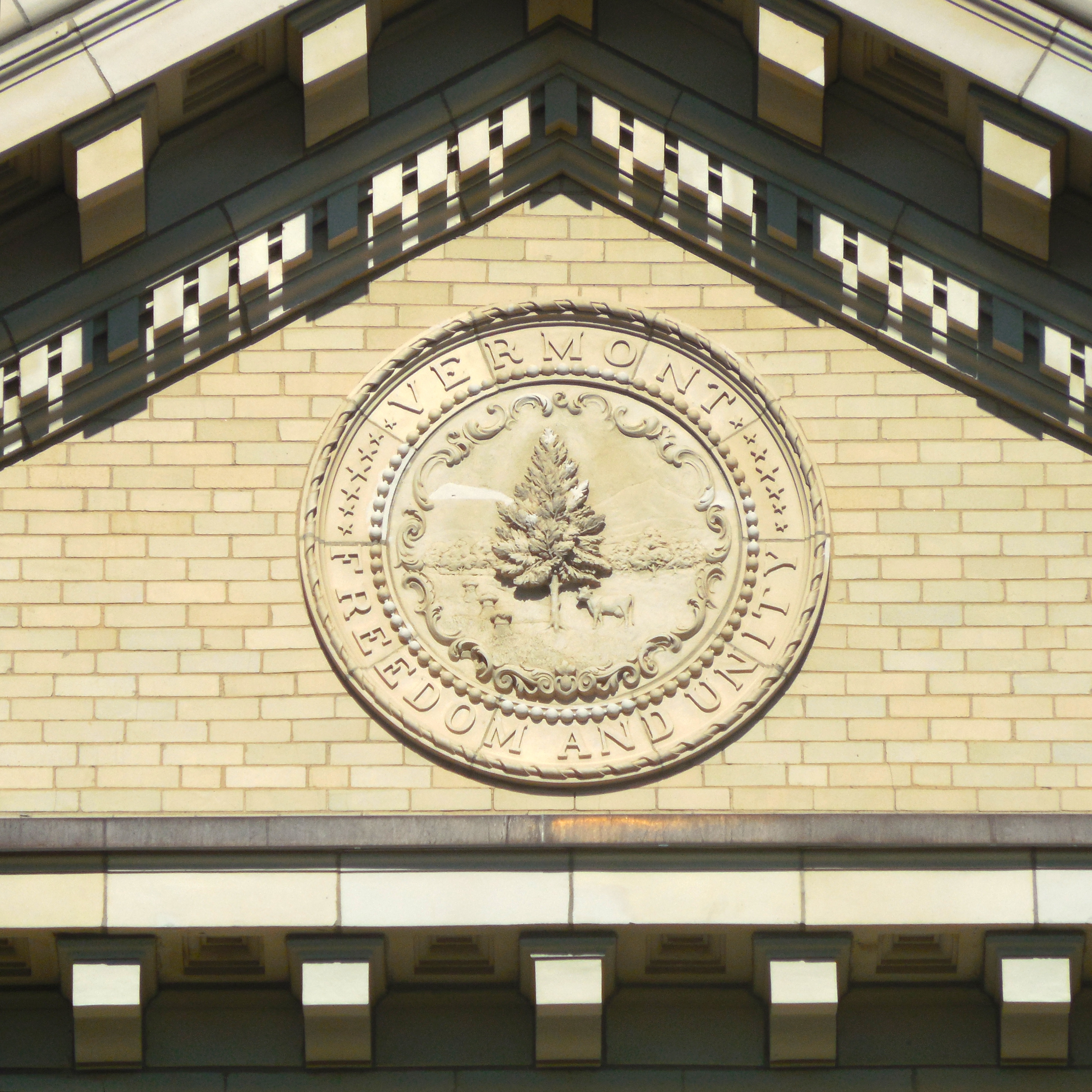 Great Seal of the State of Vermont on the pediment of Morrill Hall at the University of Vermont: Jul 2015 (Architect: Charles Wyman Buckham, circa 1906-07 / Original Designer of Vermont State Seal: Ira Allen)